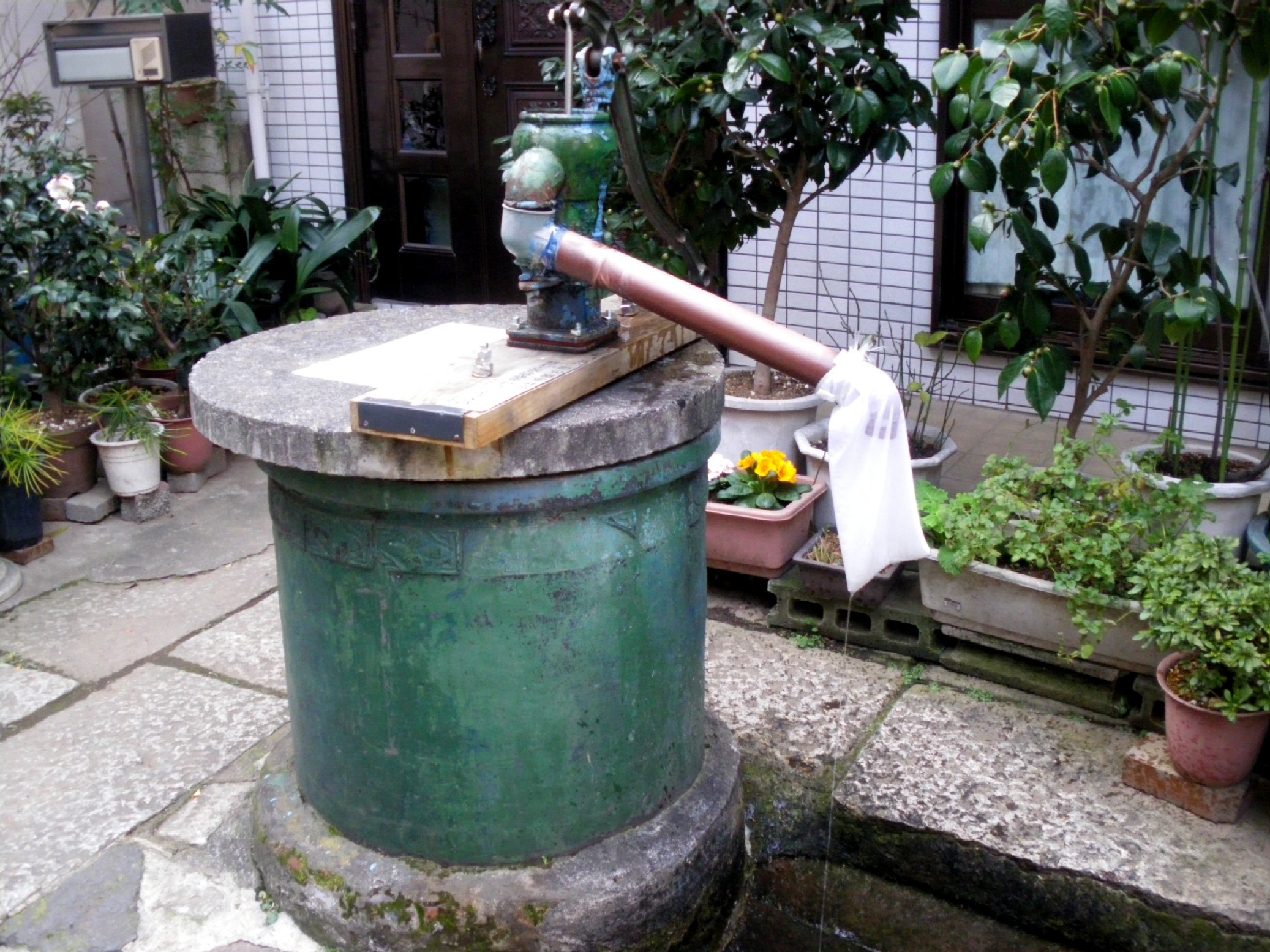 The Well of Higuchi Ichiyo(Hongo,Bunkyo,Tokyo)